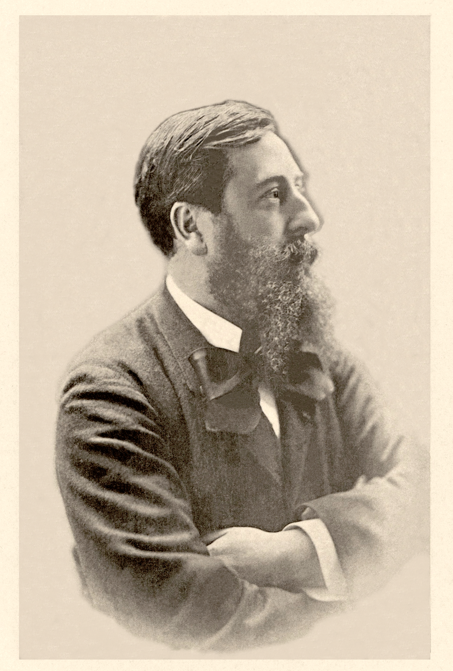 Léo Delibes (1836-1891), french composer.